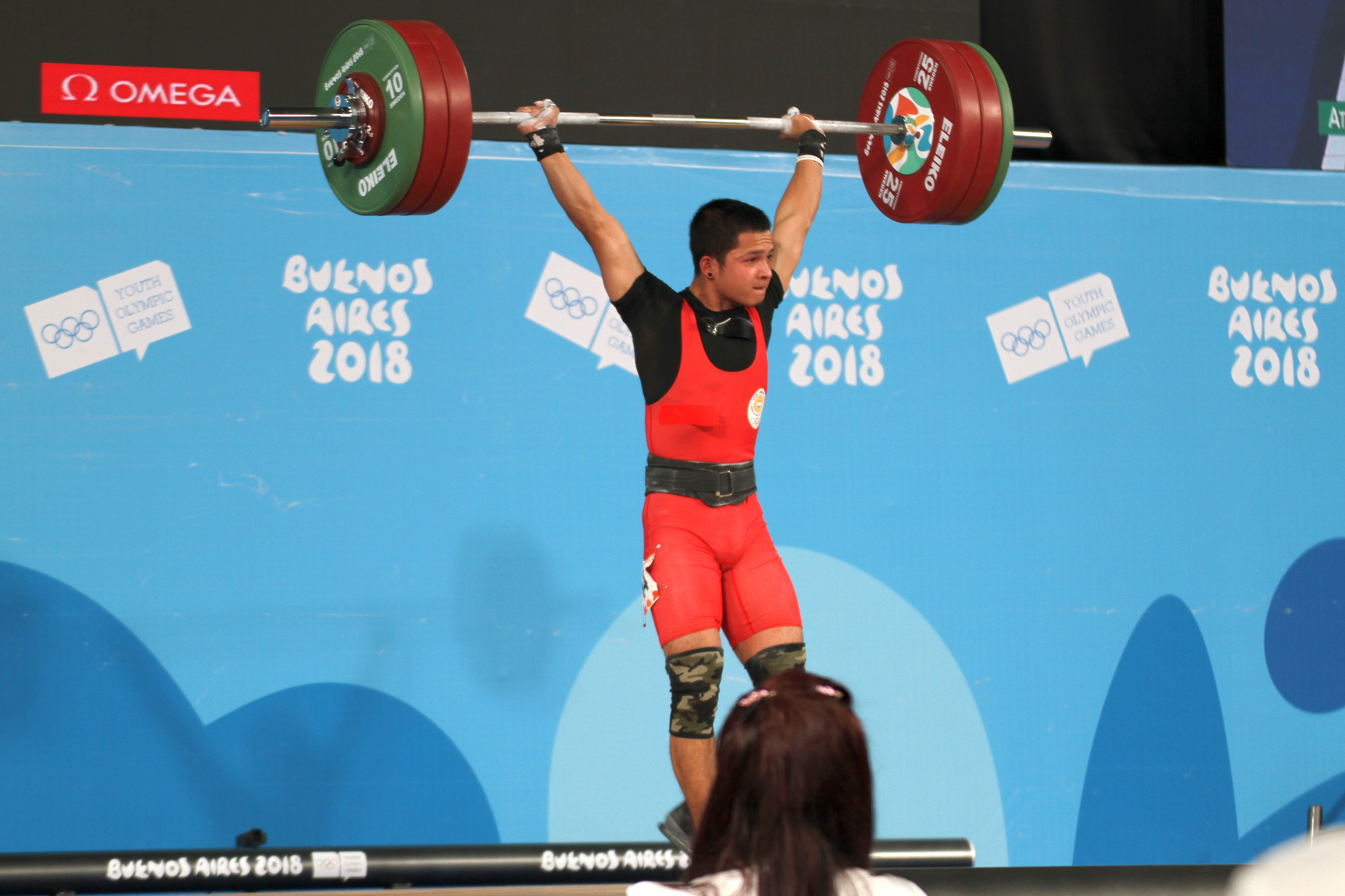 Weightlifting at the 2018 Summer Youth Olympics at 8 October 2018 – Boys' 62 kg